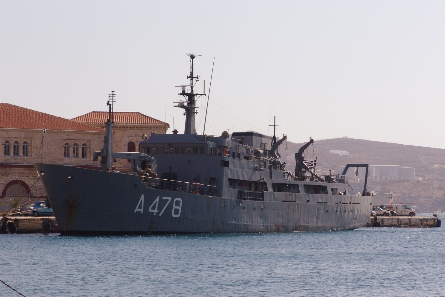 Hellenic Navy hydrographic vessel HS Nautilus, A-478, IMO: 7411129, in Syros Harbour.